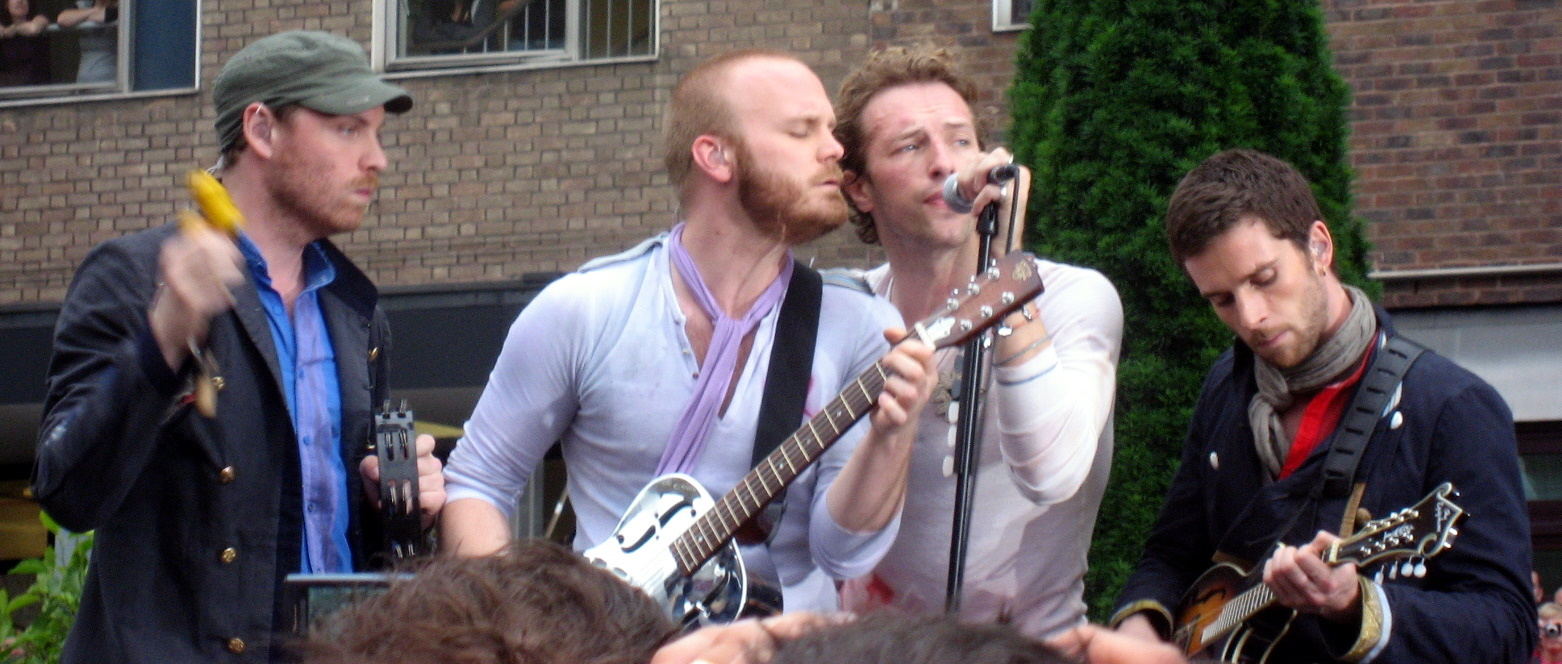 Coldplay: Jonny Buckland, Will Champion, Chris Martin and Guy Berryman. BBC Television Centre, London